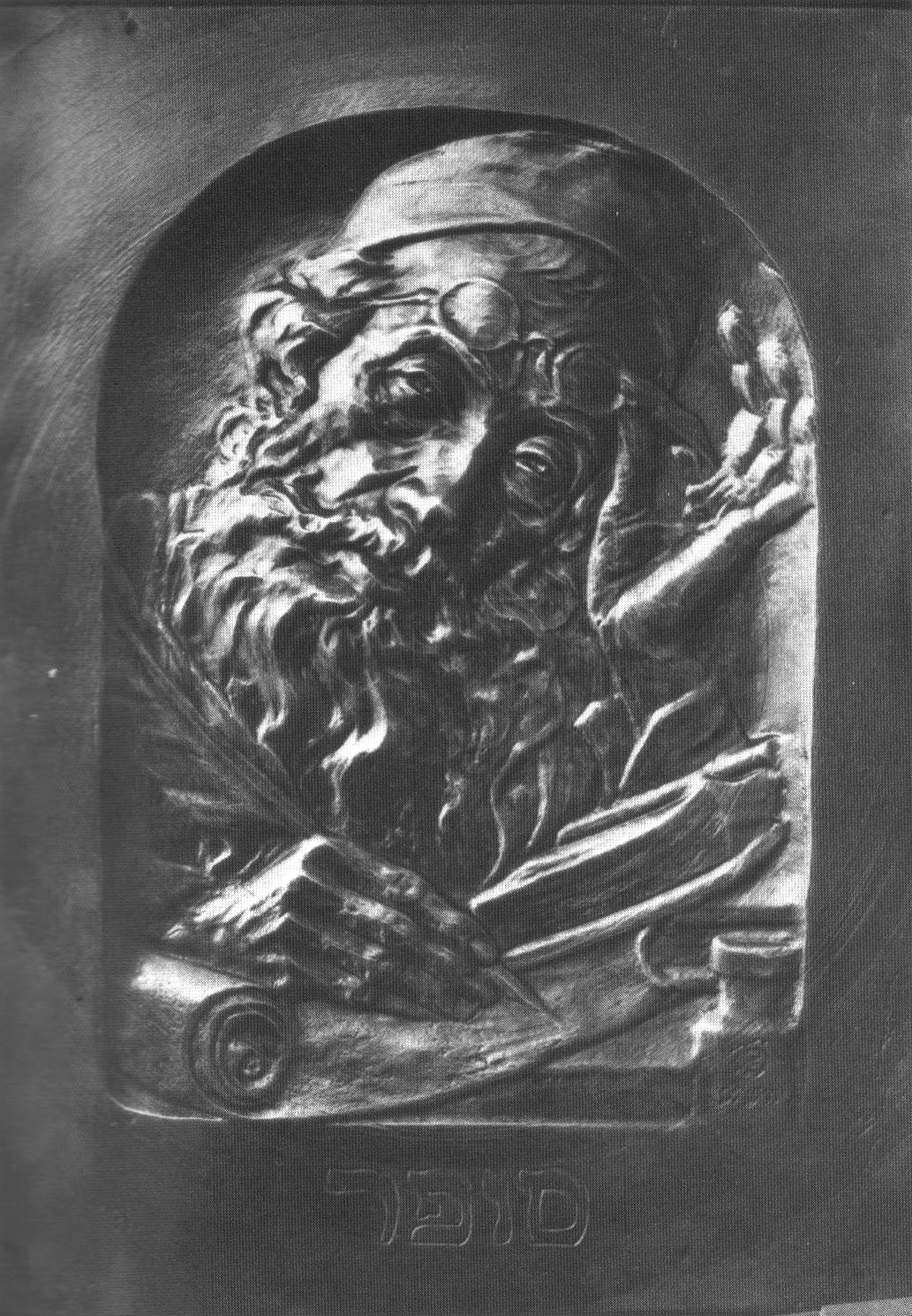 Sofer (1912) in Coppr Relief by Boris Schatz.